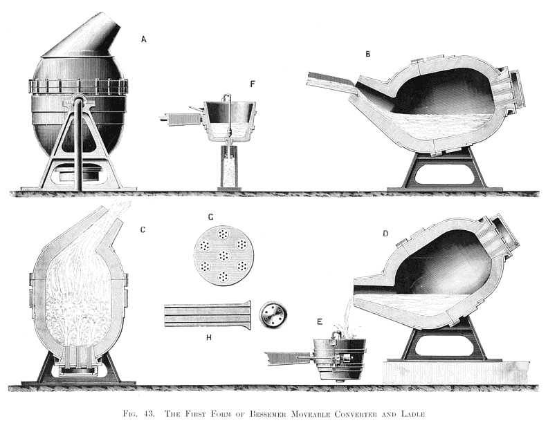 out-of-copyright print, published in 1867 in Great Britain